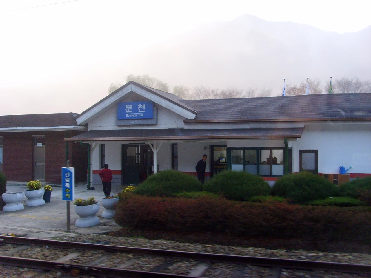 Buncheon Station (Yeongdong Line)